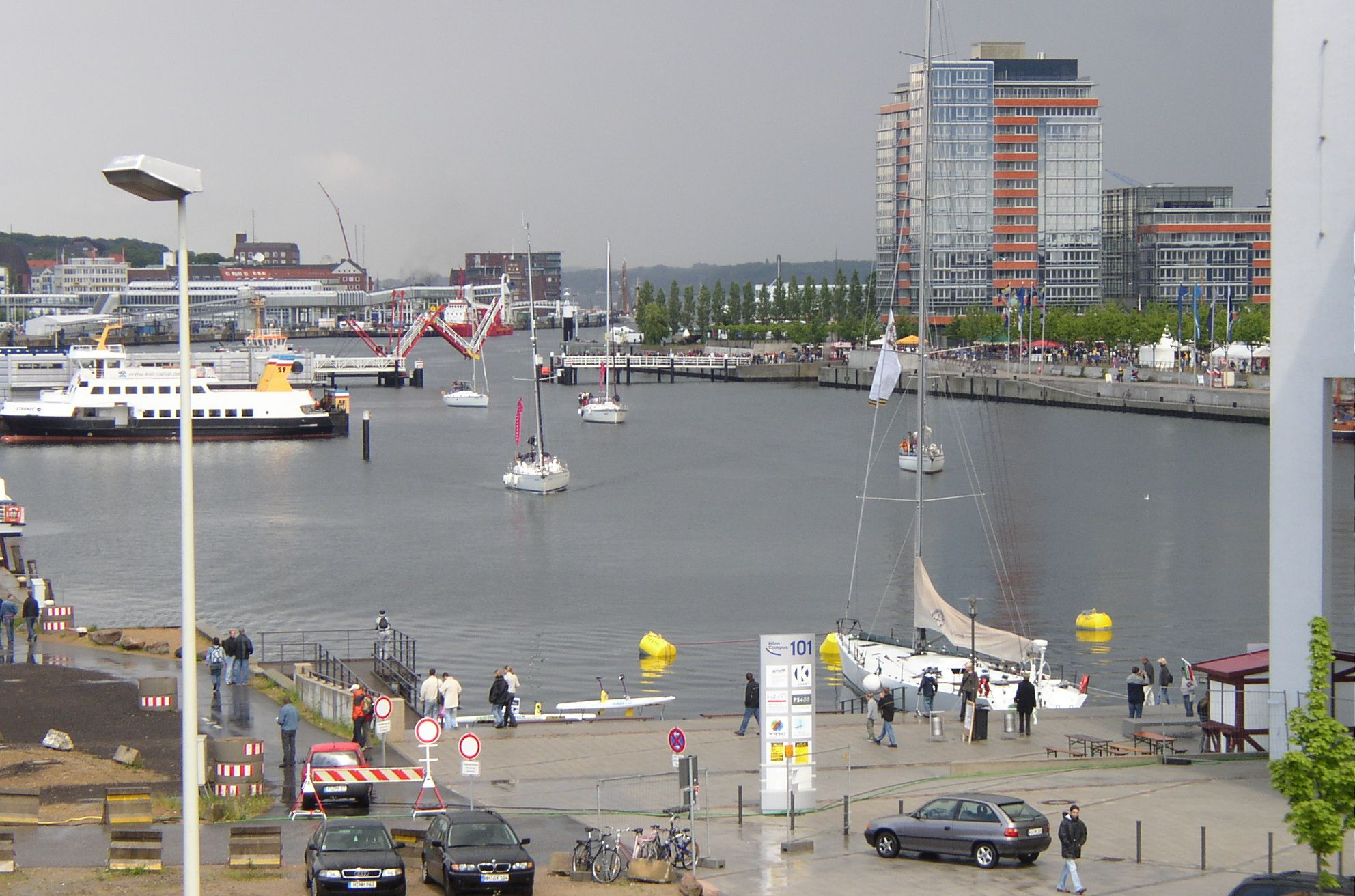 View over the Hörn from the Hörn Campus during Kiel Week 2004.